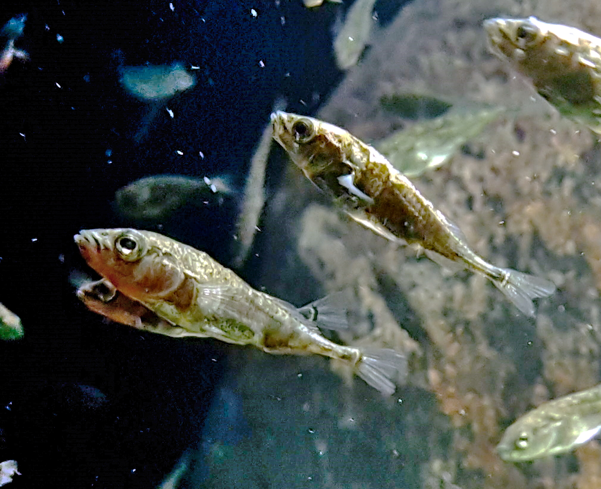 Three-spined sticklebacks at Berlin Aquarium, showing sexual dimorphism (male left, female right)